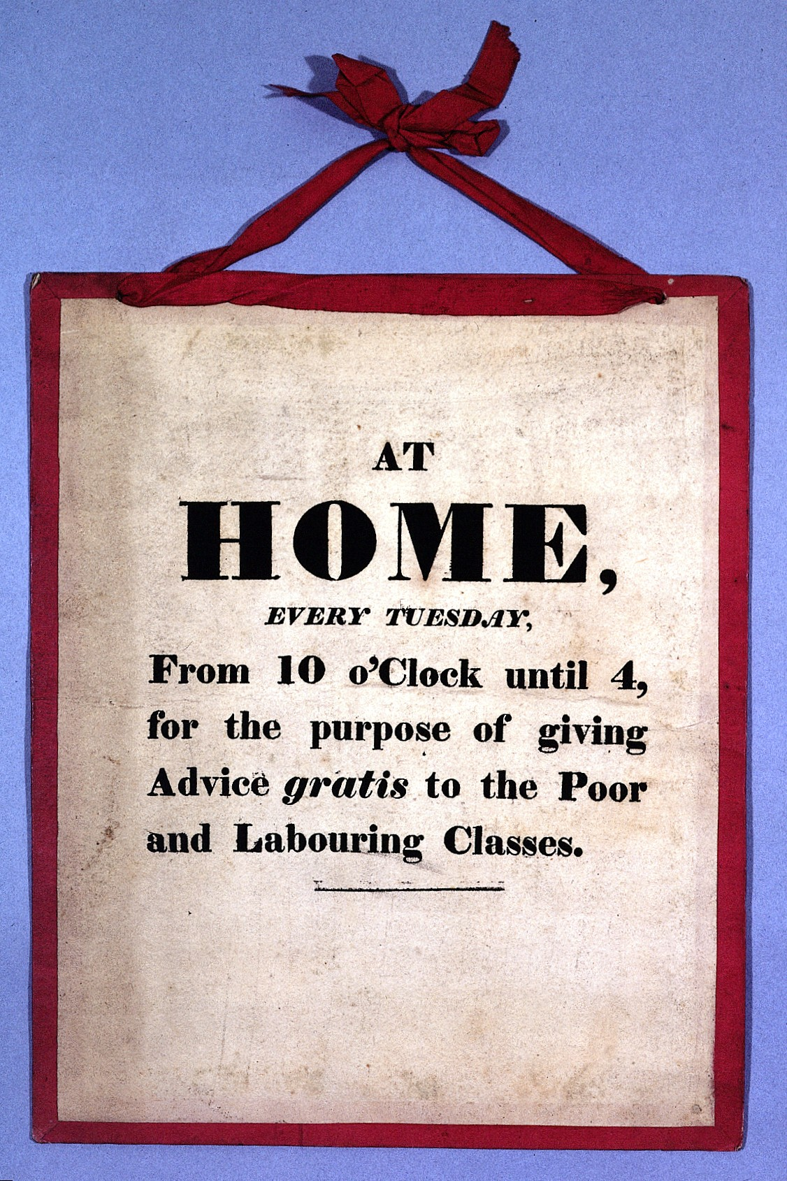 H.H. Hickman's reception card from his surgery. Iconographic Collections Keywords: Henry Hill Hickman